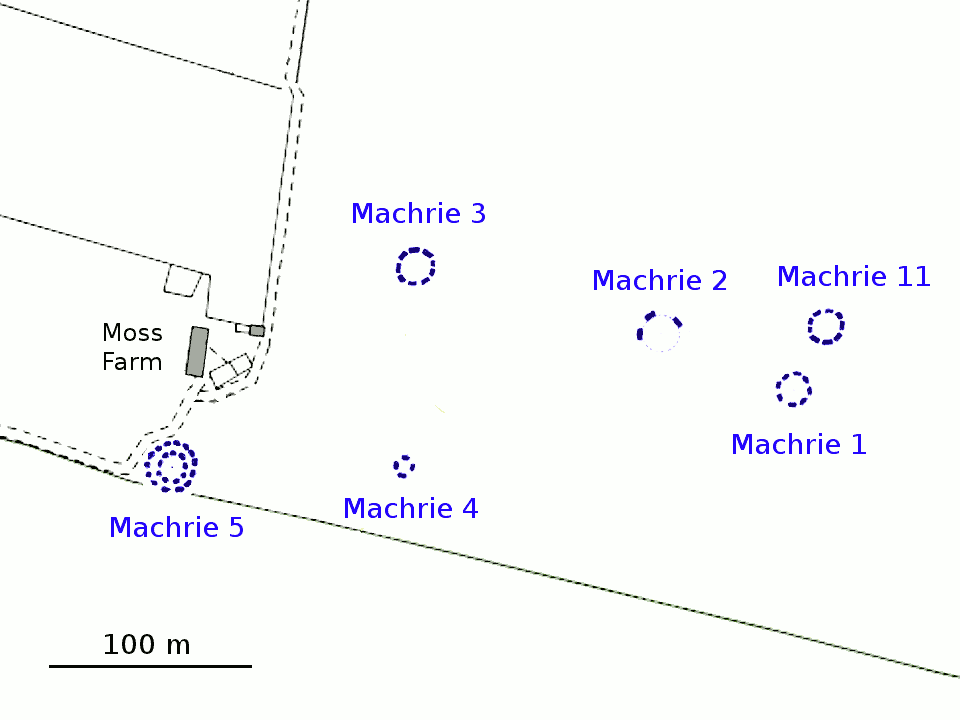 Simplified map of the Machrie Moor Stone Circles on the Isle of Arran, Scotland. Based on the Ordnance Survey Street View map, available under the Ordnance Survey OpenData Licence.